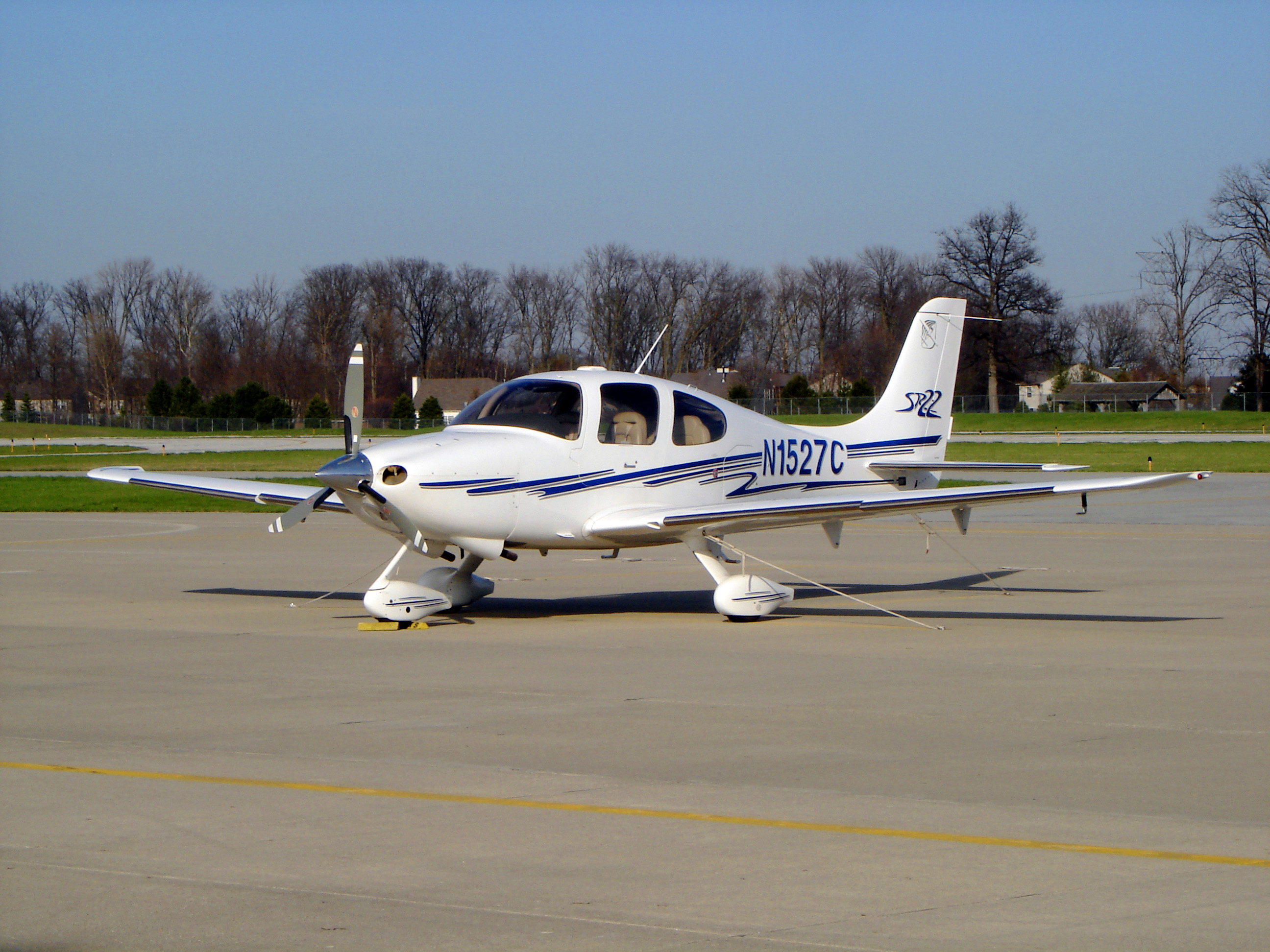 2003 Cirrus SR22 (registration N1527C) on the ramp at Eagle Creek Airpark.